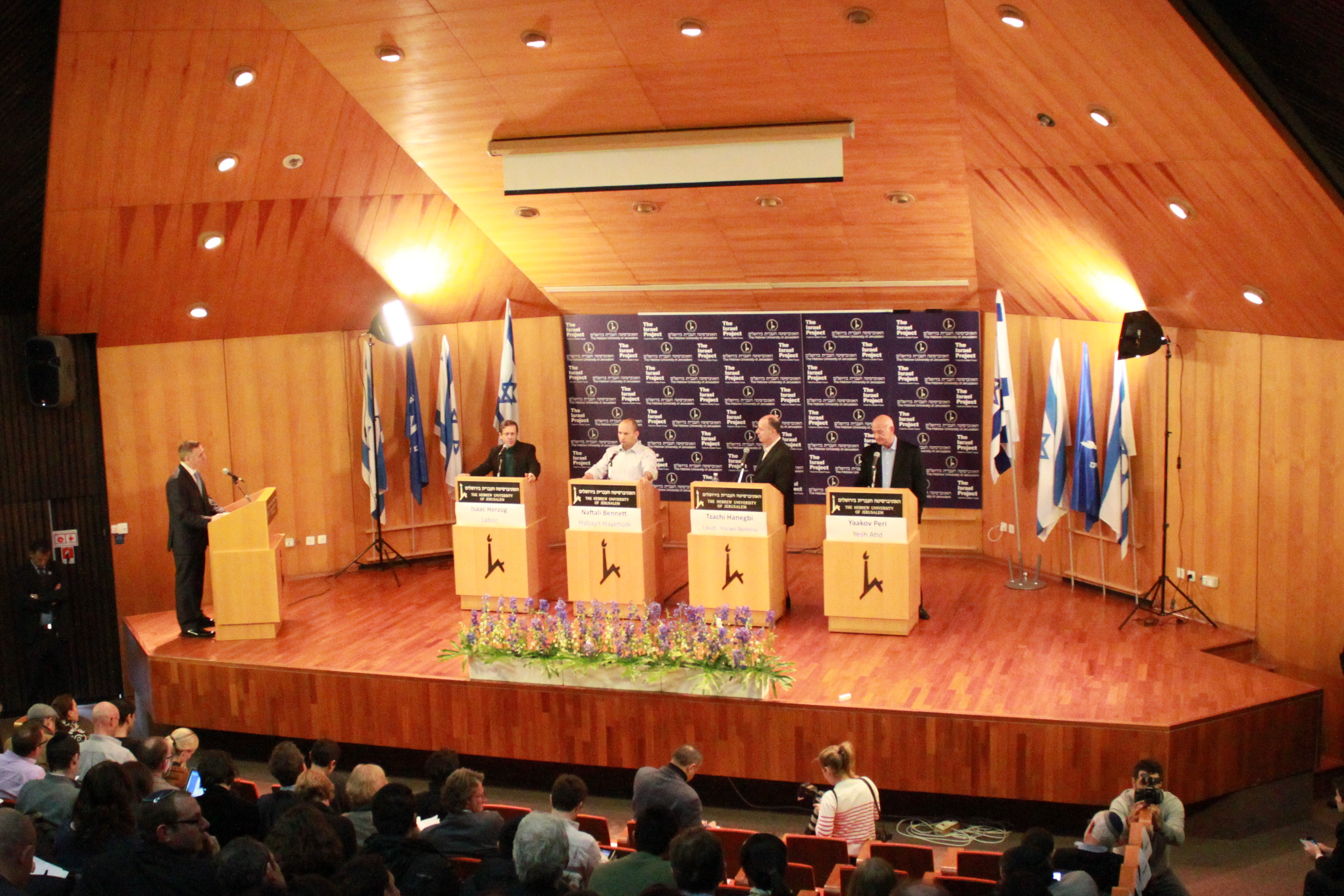 Senior representatives of Israel’s major political parties addressing scores of journalists and diplomats at The Israel Project’s pre-election foreign-policy debate. (Mati Milstein/The Israel Project)